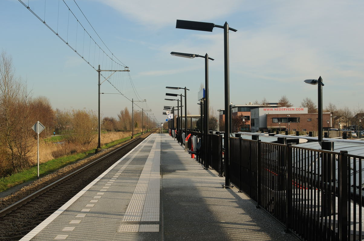 Railway station Hardinxveld Blauwe Zoom with only one track and one platform. Hardinxveld-Giessendam, the Netherlands.